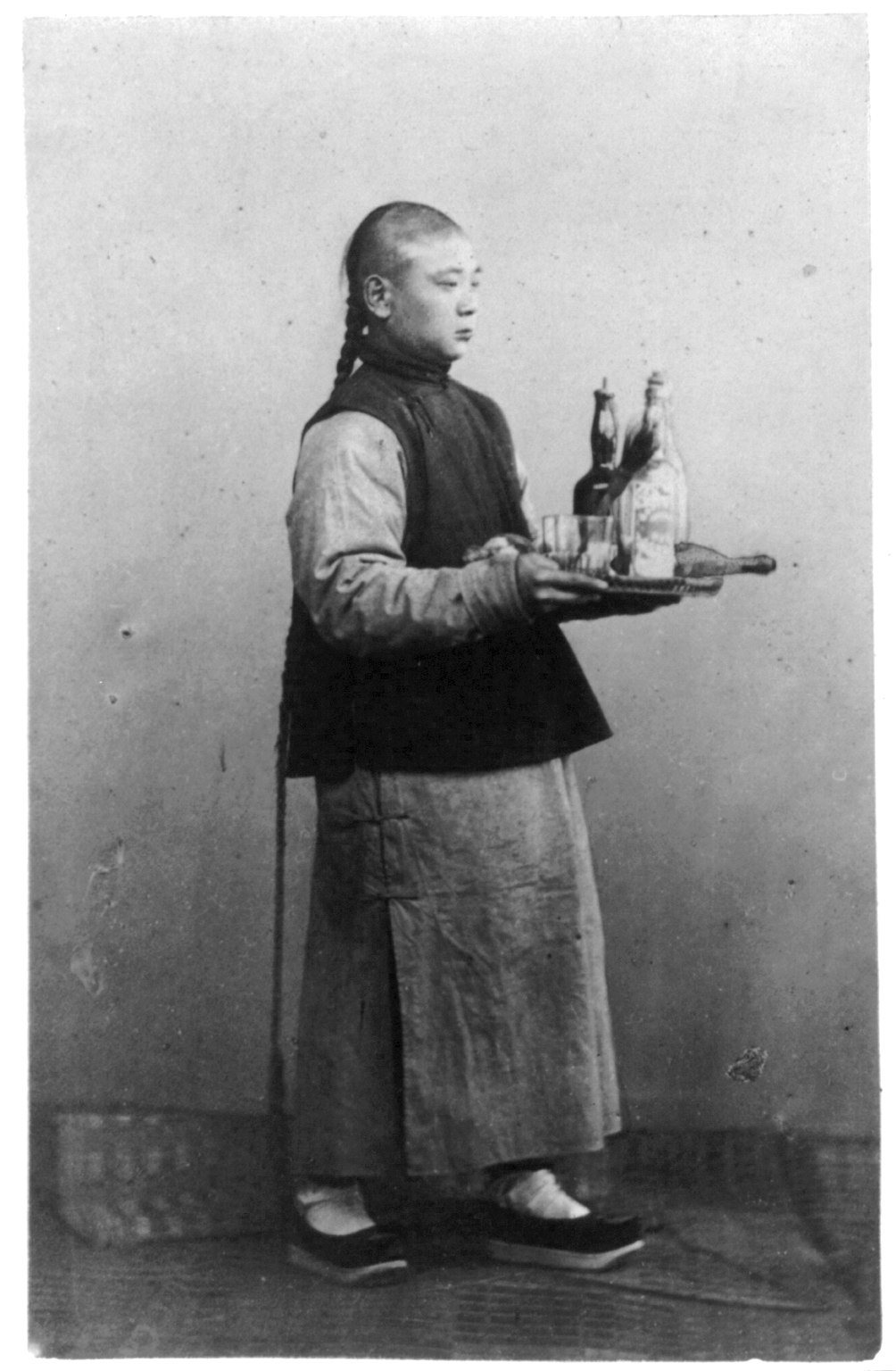 Title: Boy with tray Summary: Photograph shows a Chinese man, full-length portrait, standing, facing right, holding a tray on which are bottles for cocktails.. Abstract/medium: 1 photographic print : albumen, hand-colored.